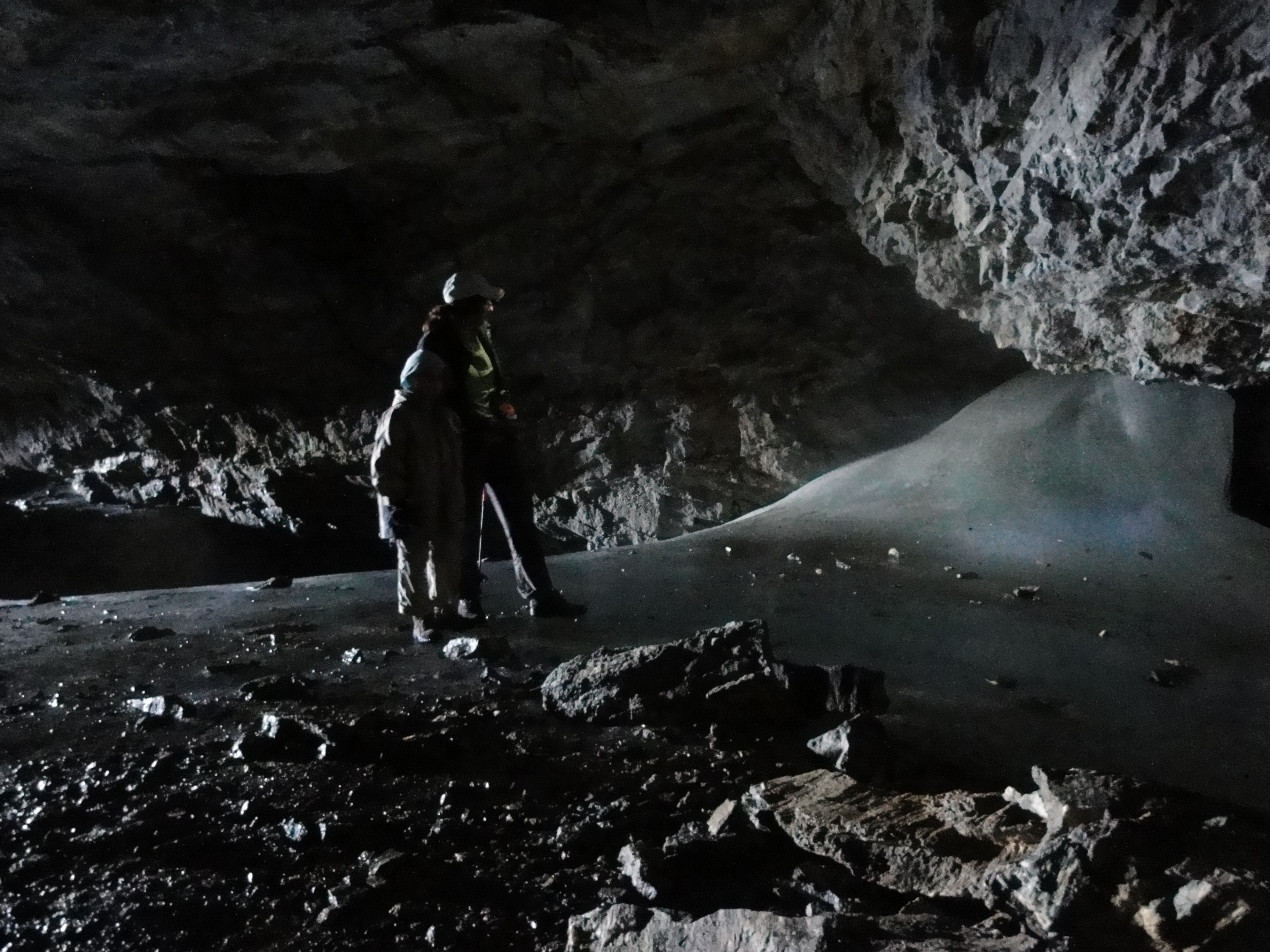 Parque Nacional de Ordesa y Monte Perdido, This is a photography of a Special Area of Conservation in Spain with the ID: ES0000016. Natura2000 entry, EEA entry